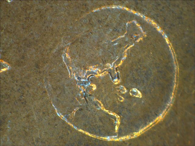 Detail from the reverse of a 1972 Eisenhower dollar, Type 1